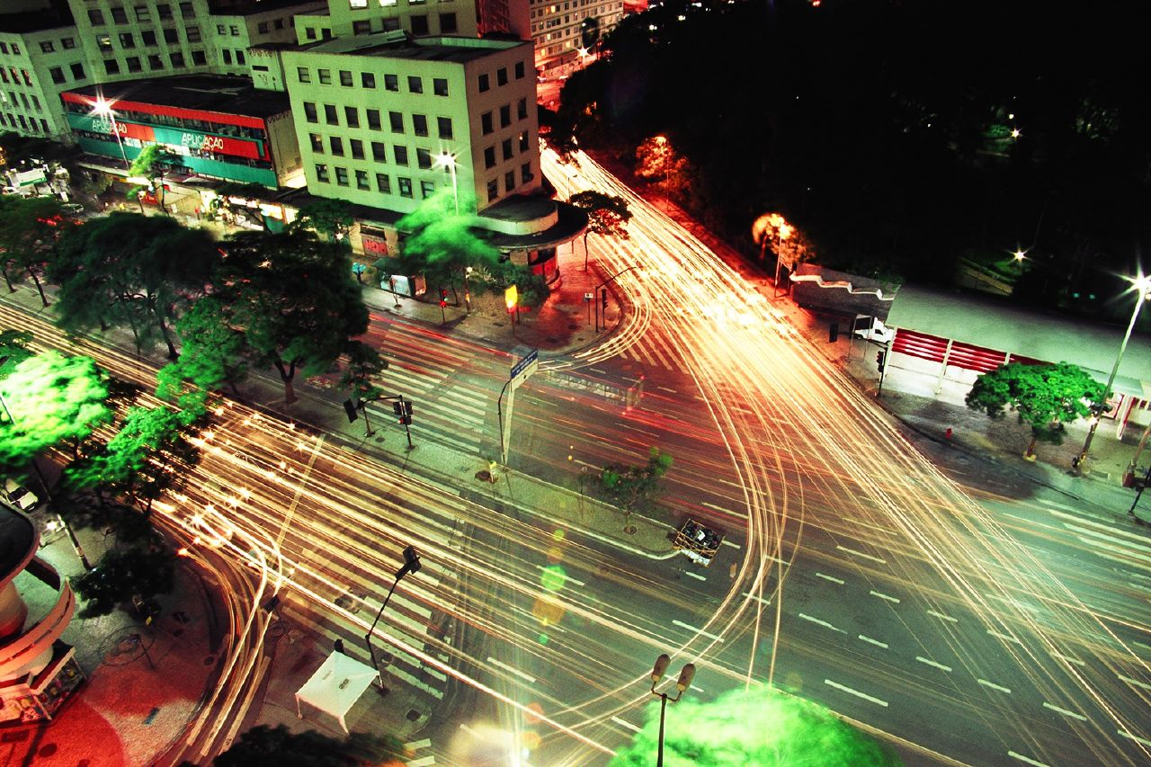 Wherever you are, there are always interesting photo opportunity. This was taken from my hotel room in Belo Horizonte. The black area top right is a park, closed at night. Intersection between Afonso Pena avenue and Bahia Street, from the Othon Palace Hotel, center of Belo Horizonte, Minas Gerais, Brasil